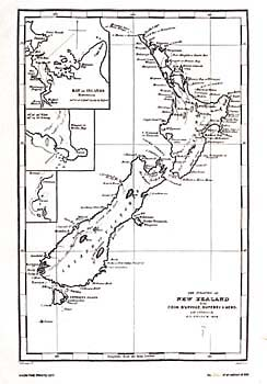 Islands of New Zealand by Joel Samuel Polack. Reproduction courtesy of New Zealand Fine Prints (